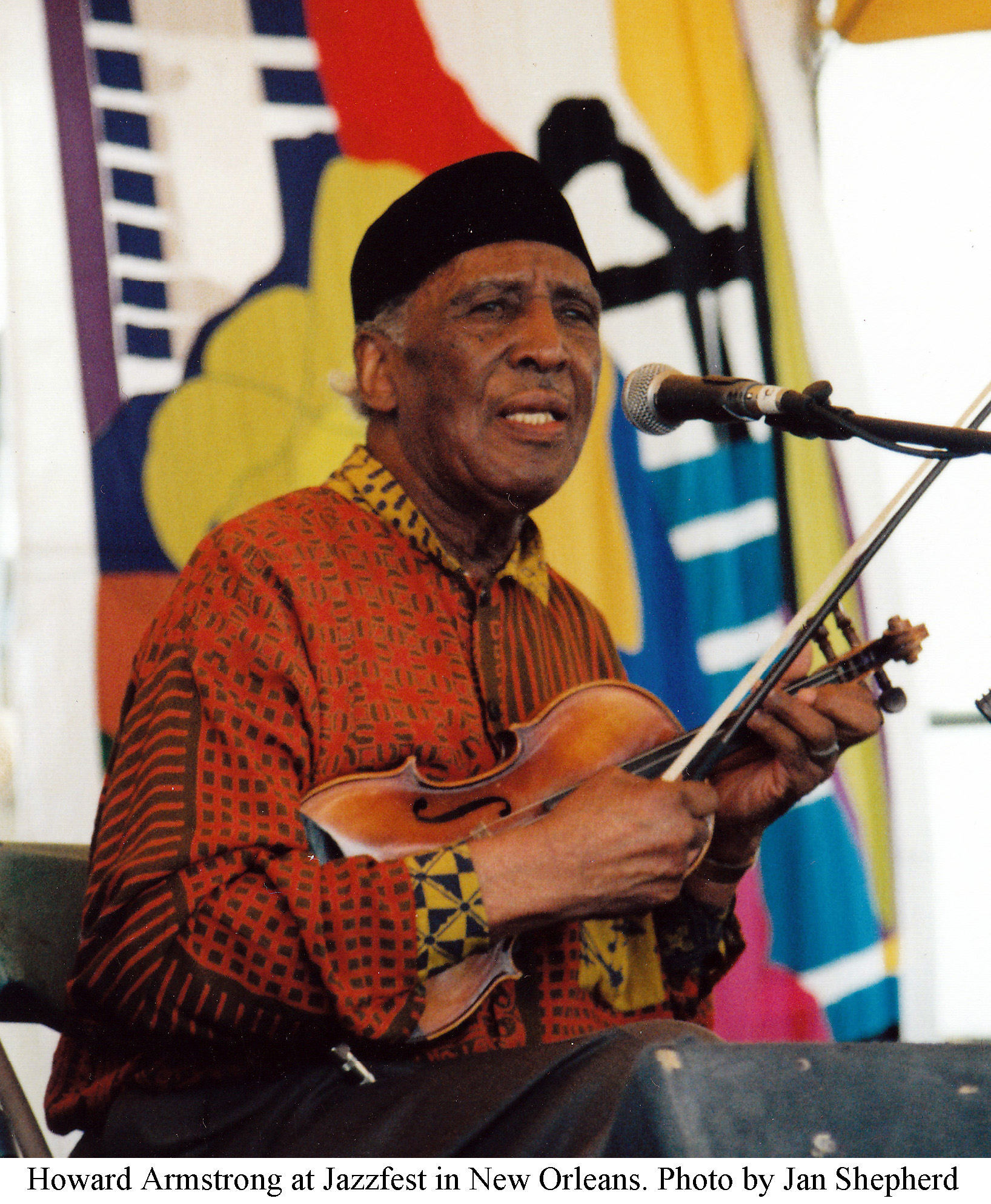 Howard Armstrong onstage at the New Orleans Jazz and Heritage Festival, 1998